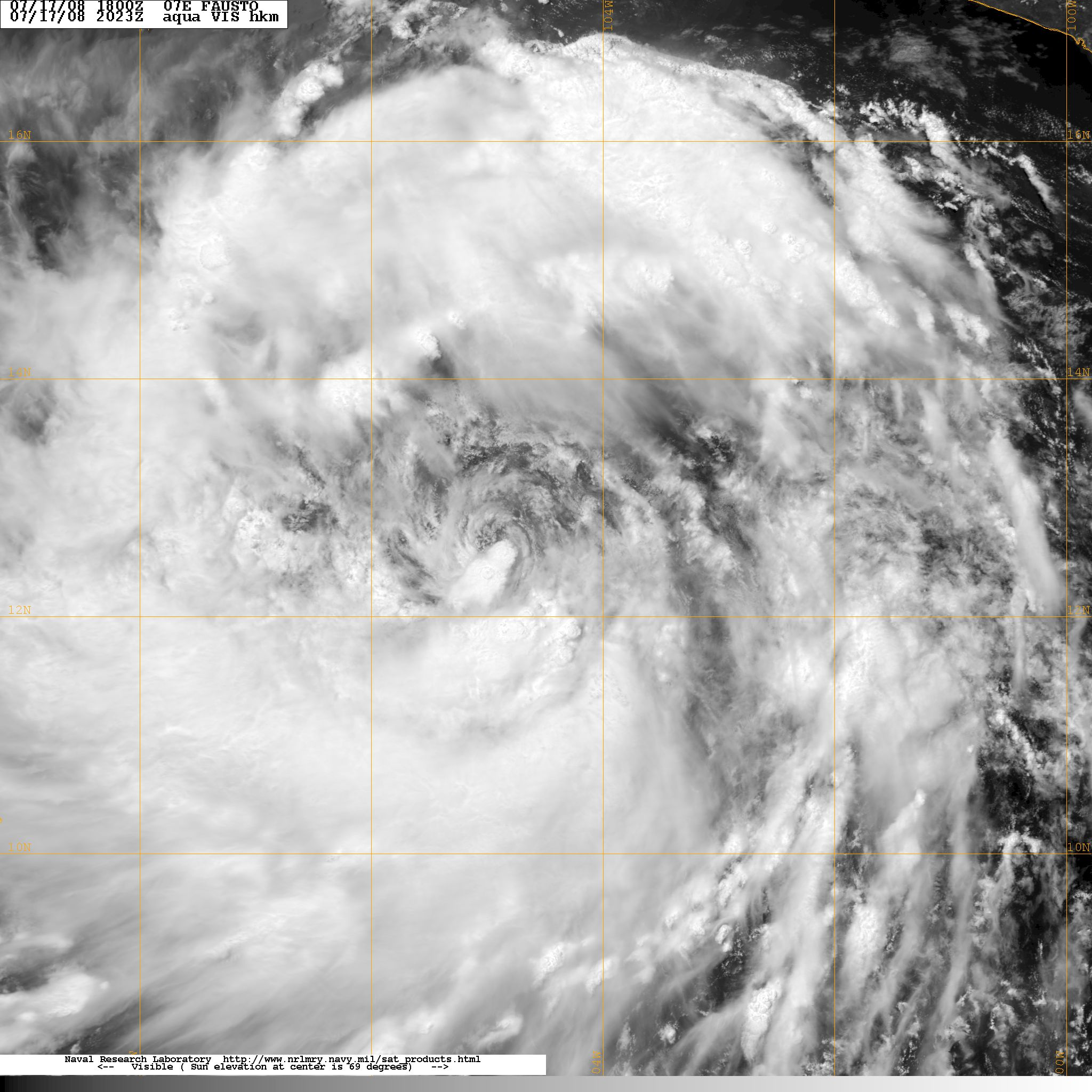 Tropical Storm Fausto on July 17, 2008